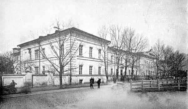 Minsk, Belarus. Theological Seminary. Former church and mariyavity Сonvent.